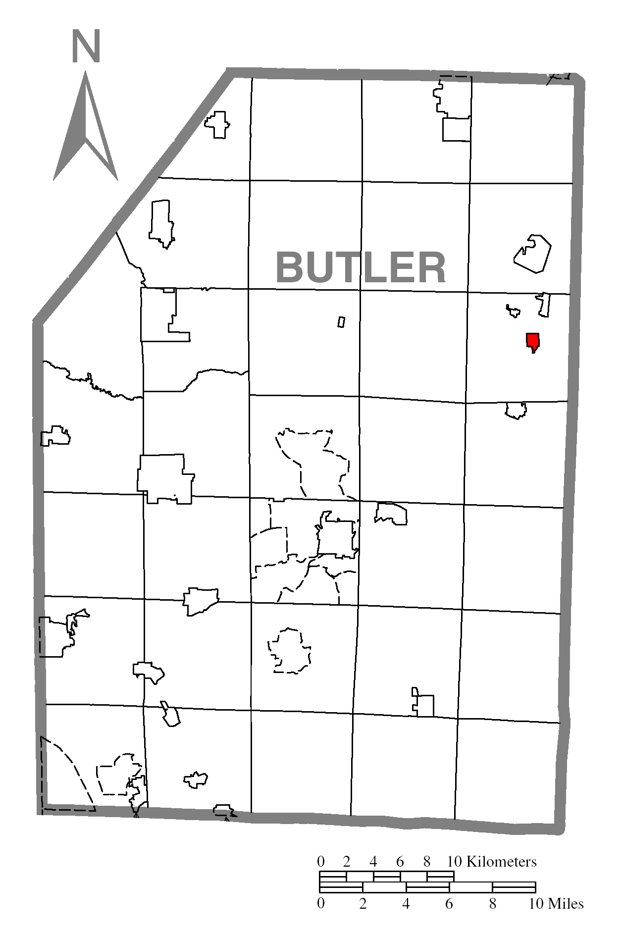 A map of Butler County showing Karns City, Pennsylvania (alternate) highlighted on the map.